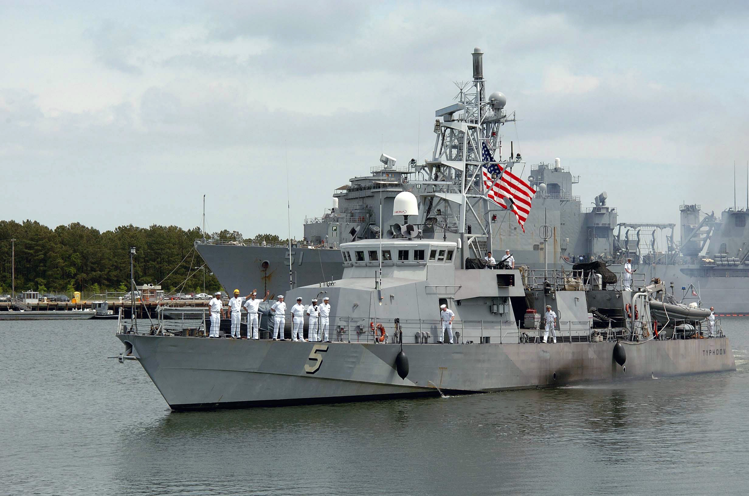 Port bow view showing Sailors manning the rails aboard the US Navy (USN) Cyclone Class, Coastal Defense Ship, USS TYPHOON (PC 5) as it get underway in the harbor at Little Creek Amphibious Base, Virginia (VA) for an 18 month deployment with the USS SIROCCO (PC 6). These ships will be forward deployed for 18 months while crews are swapped out every six months. This 'crew swap' initiative increases the Navy's forward presence by providing an extra 90 days of on-station time per vessel when the ships stay deployed for 18 months. Location: LITTLE CREEK, VIRGINIA (VA) UNITED STATES OF AMERICA (USA)